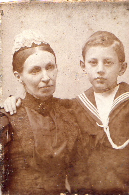 Hugh Pembroke Vowles (author journalist engineer and socialist) and his mother Hannah Elizabeth Thistle